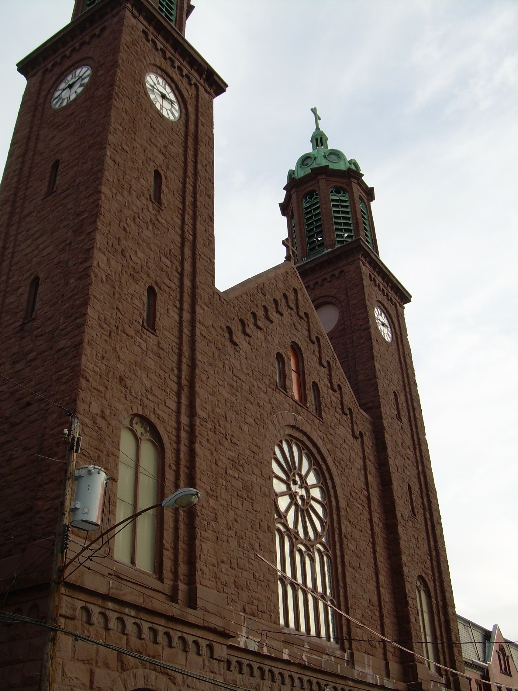 Temp pic of Corpus Christi R. C. Church Complex